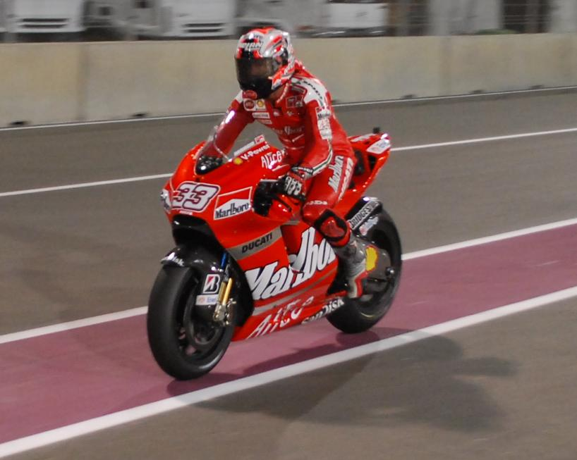 Ducati is still too hot for you!!